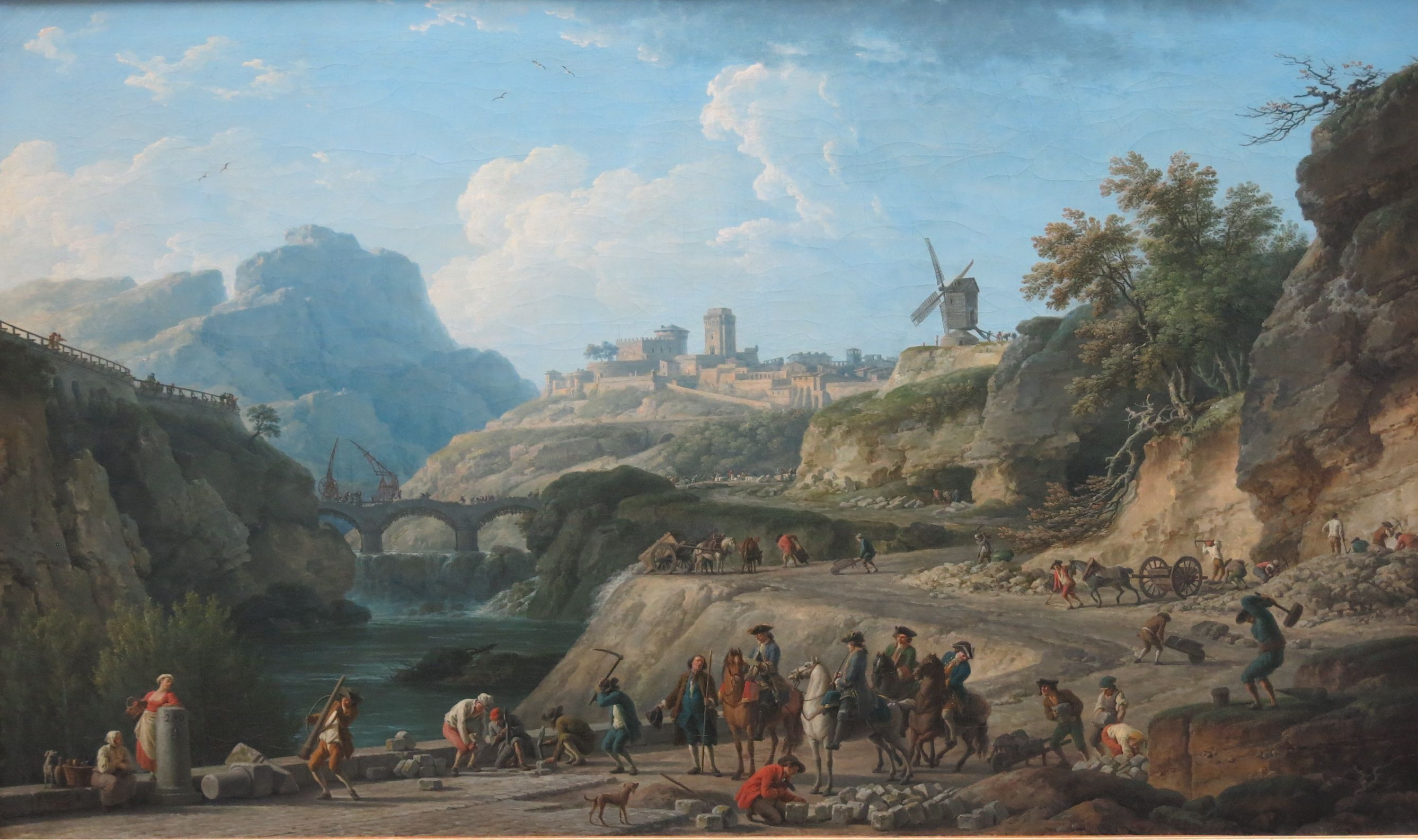 Construction of a Large Road. Claude-Joseph Vernet. Oil on canvas. 1774. (Louvre museum, Paris, France).